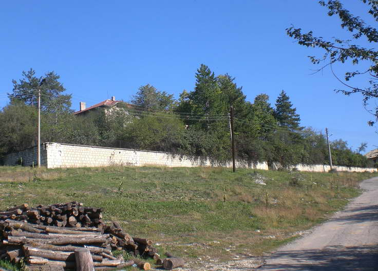 The building and yard of old school in village Osikovo, Popovo municipality, Bulgaria